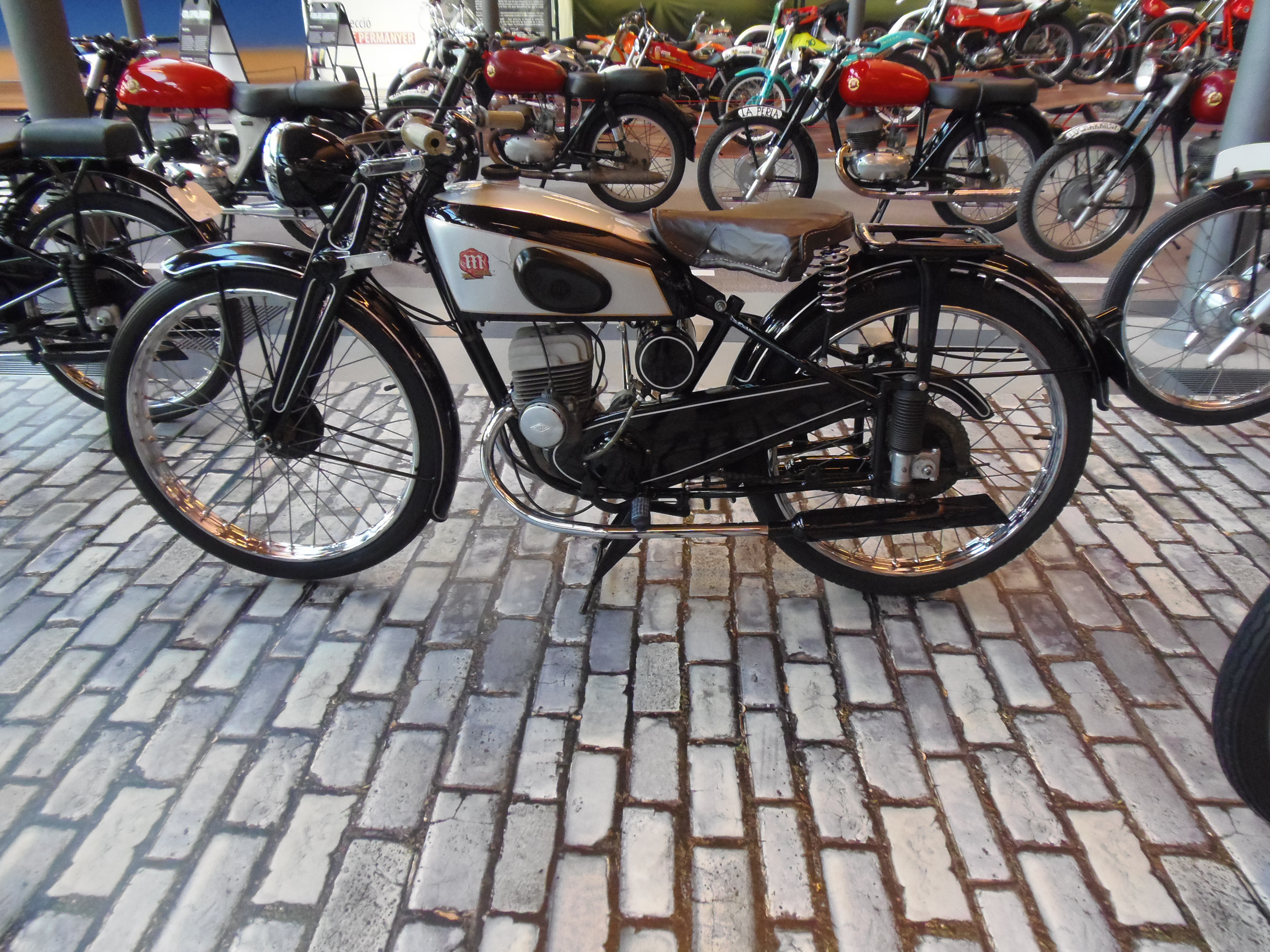 Montesa B-46/49 125cc (1947)